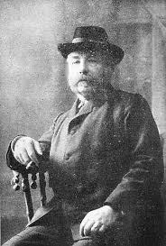 Hangay Oktav (from his periodical "Erdély Nr. 1910/1)